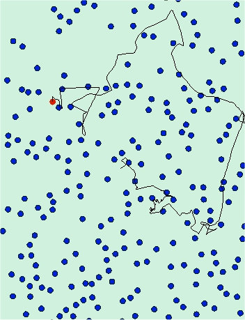 picture of ideal gas ja brownian motion of one red particle